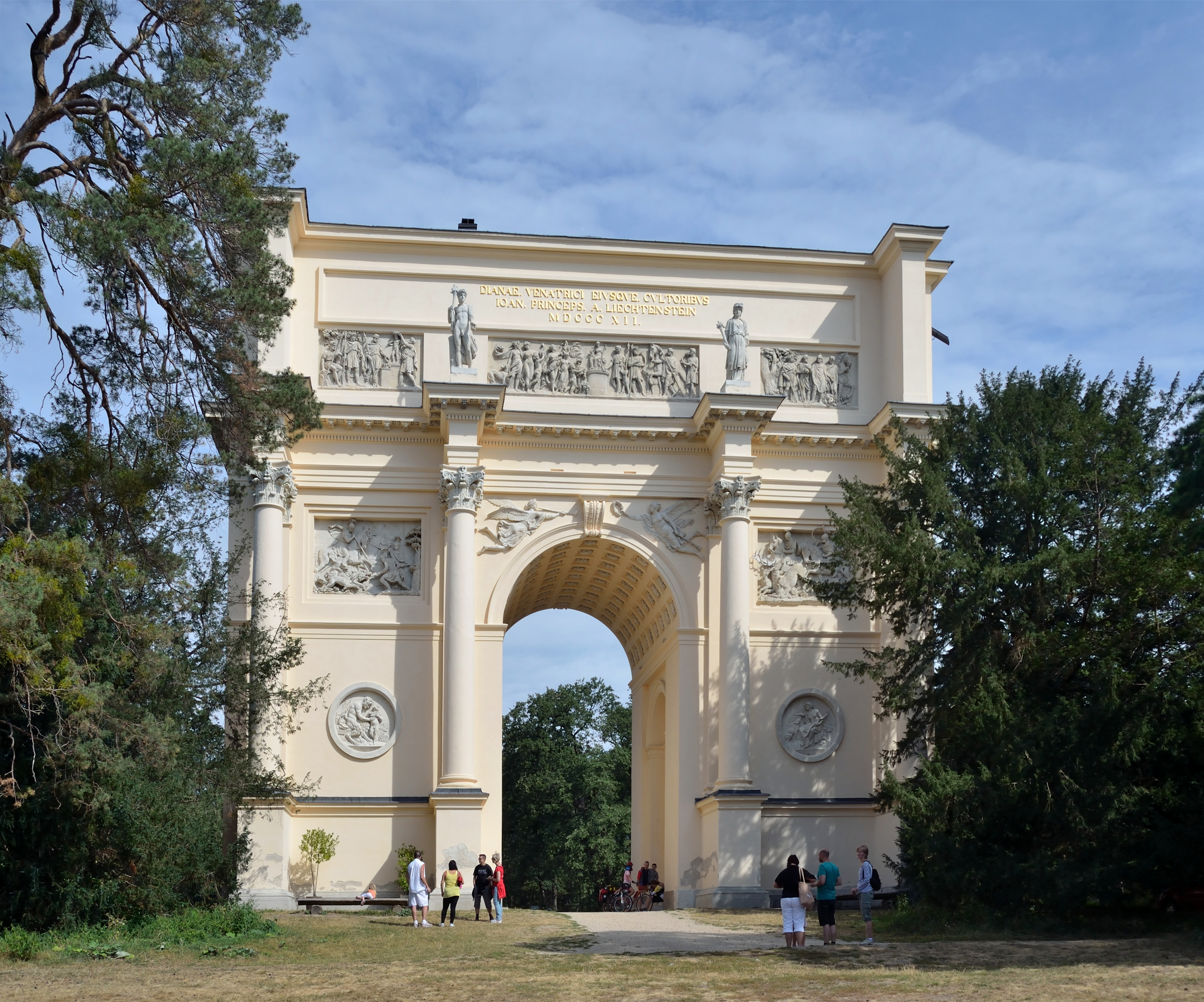 Diana temple Rendezvous in the Lednice–Valtice Cultural Landscape in the Czech Republic.